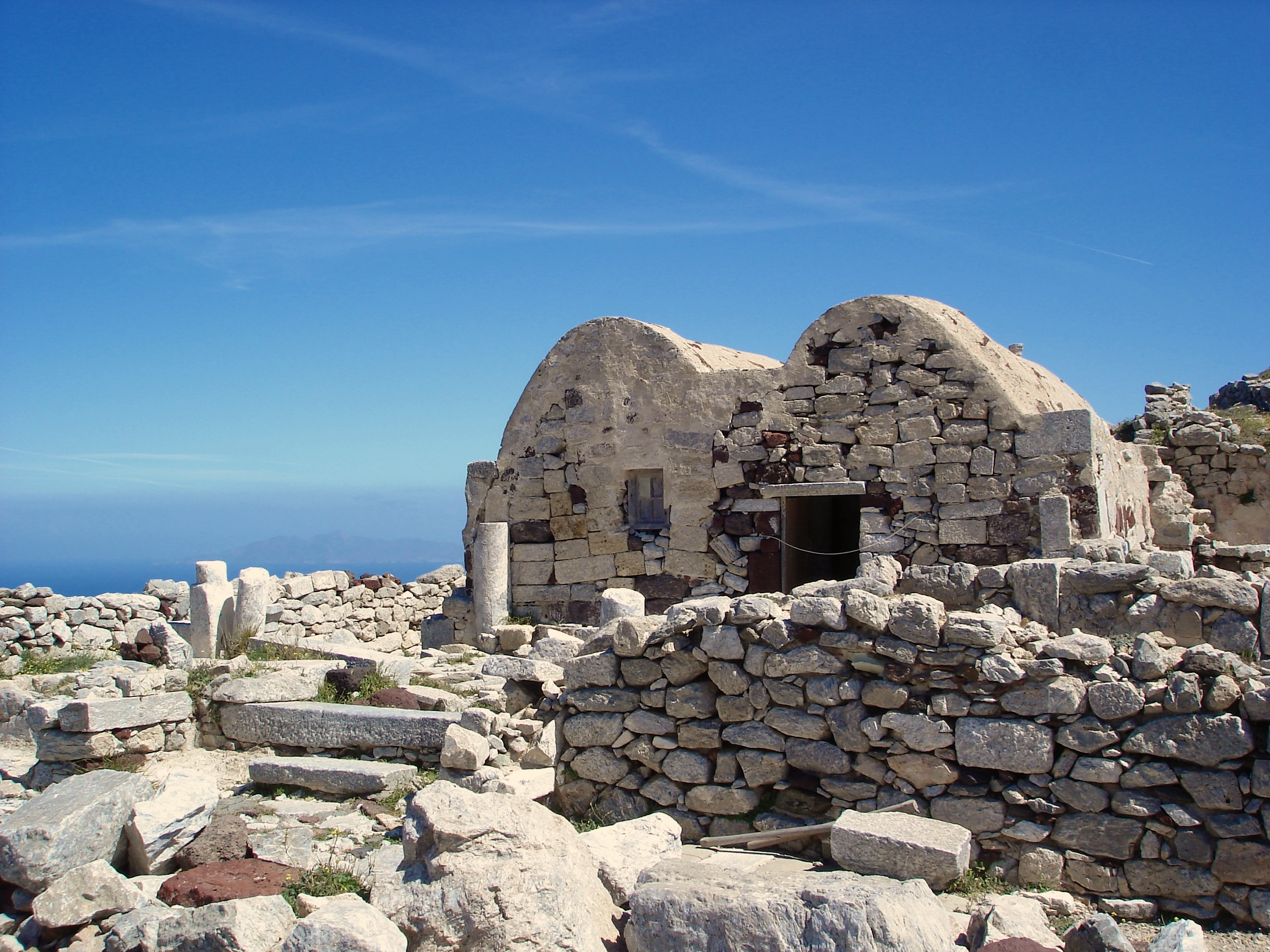 The Proto-Christian church of Saint Stefanos at the entrance of the Ancient Thera on Mesa Vouno.